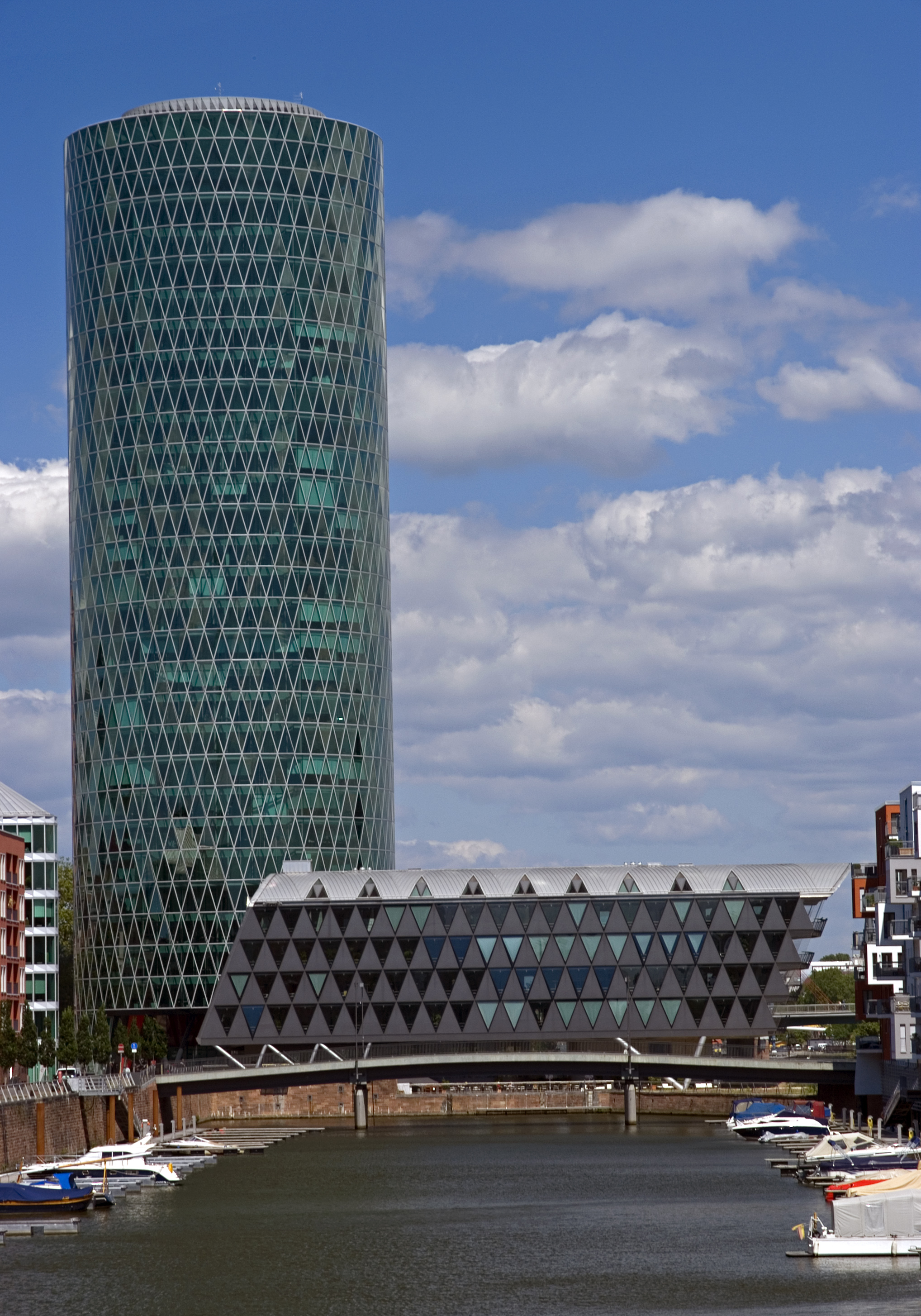 The Westhafen Tower, a skyscraper in Frankfurt am Main